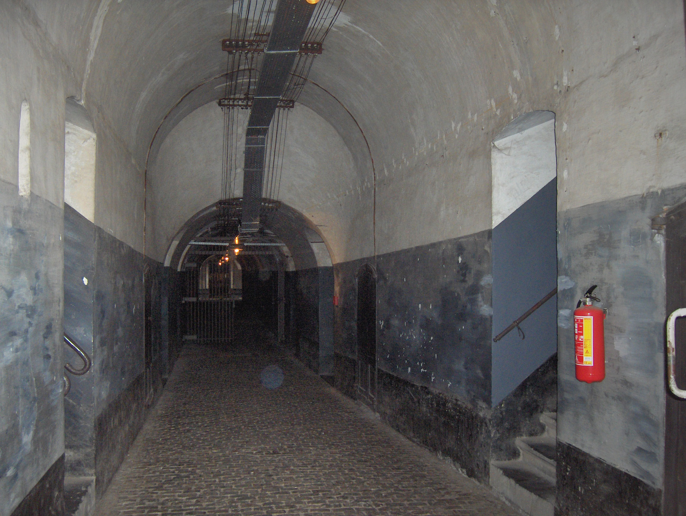 Passage at the entrance to the Fort van Breendonk, Belgium